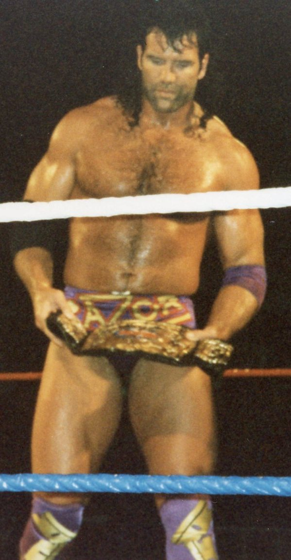 Scott Hall in his Razor Ramon gimmick, holding the WWF Tag Team Championship belt before failing to win it.